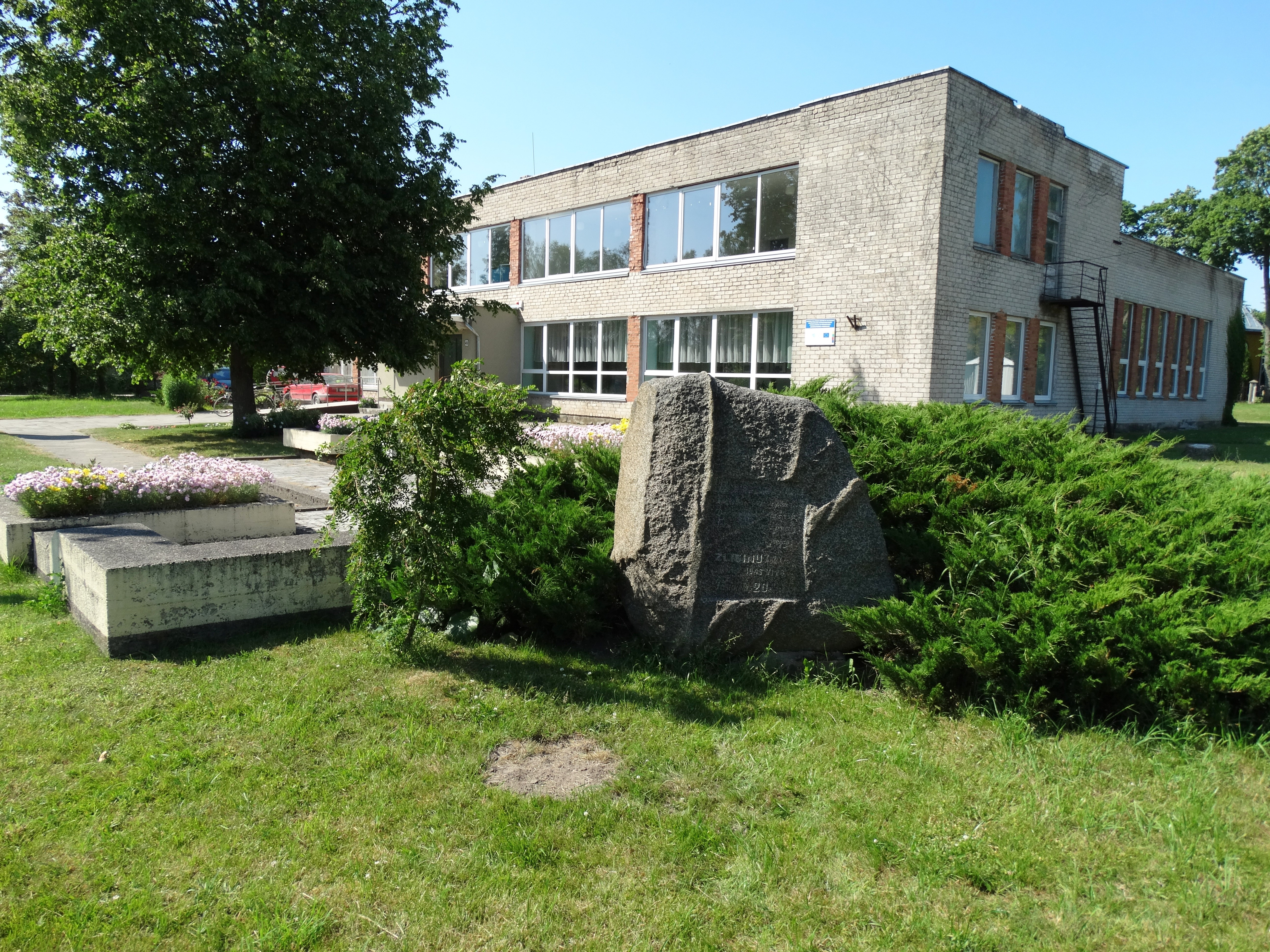 Žlibinai, Plungė District, Lithuania